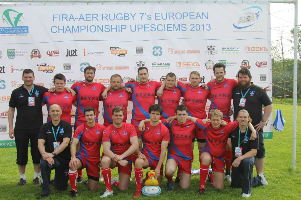 photo of the rugby team for the 7's tournament in Riga in june 2013 Debout : Kristinn Þór Sigurjónsson Formaður Rugby Ísland, Jón Jökull Lischetzki, Peter Short fyrirliði, Stefán Jónsson, Birnir Orri Pétursson, Magnús Helgi Edwald, Elías Halldórsson, Húni Húnfjörð og Ranald Haig liðstjóri. Assis : David Lynch þjálfari, Hermann Grétarsson, Anton Logi Sverrisson, Christian Beaussier, Elliði Vatnsfjörð, Freyr Sævarsson og Chris Callaway sjúkraþjálfari.